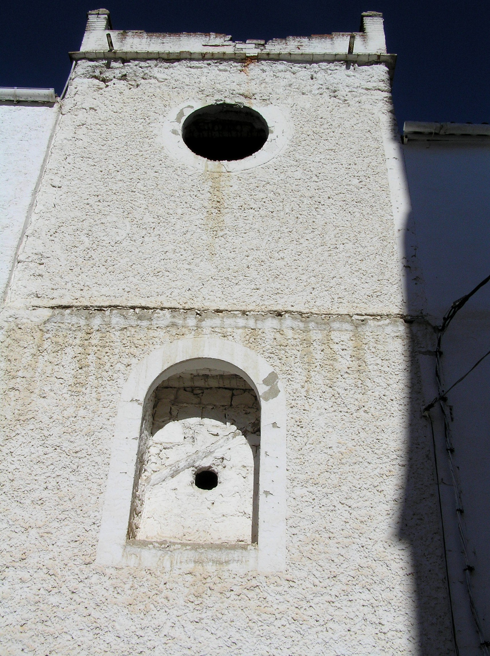 Torreon de la muralla arabe